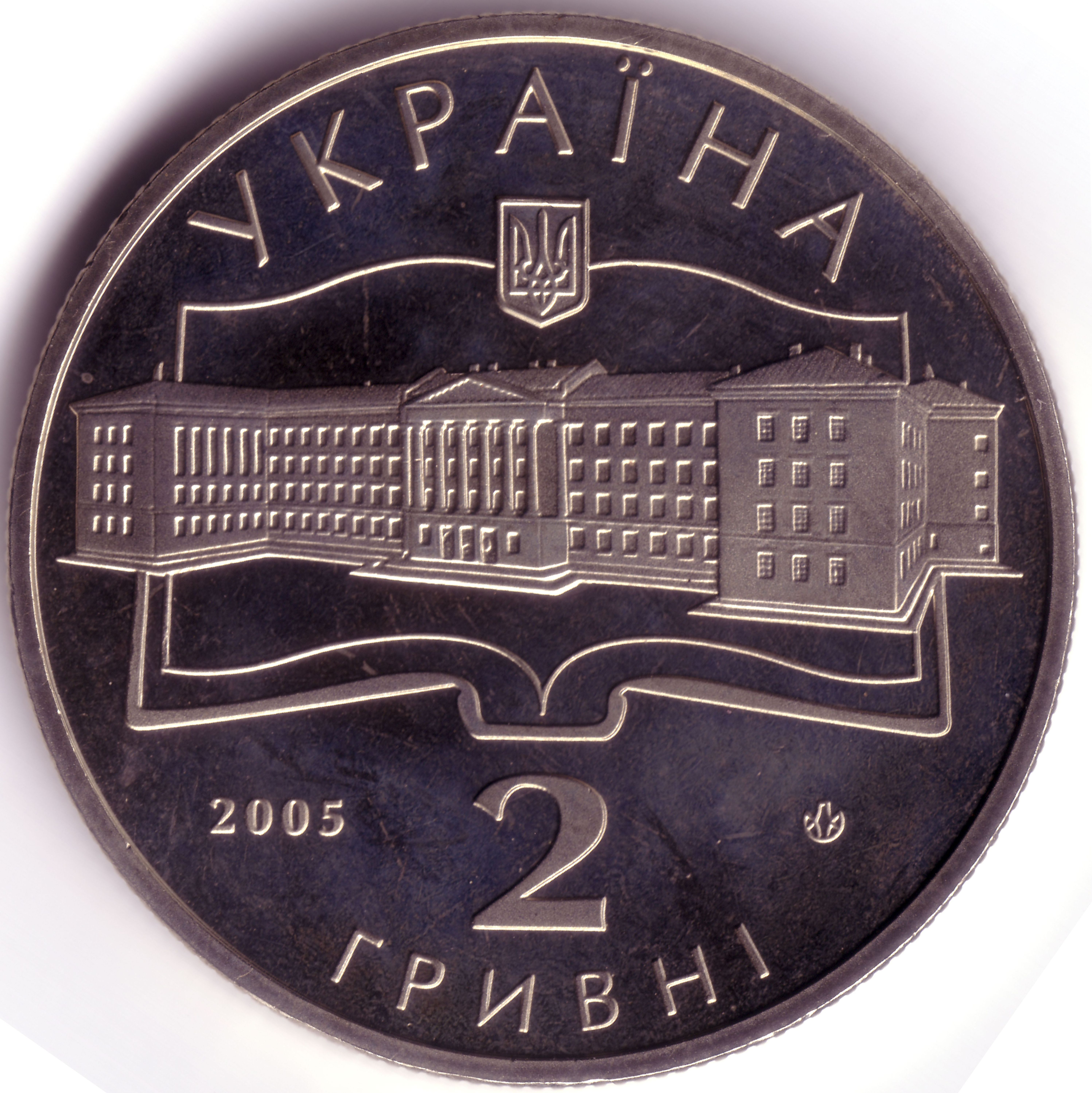 Ukrainian Coin KhAI 75 years observe 2005